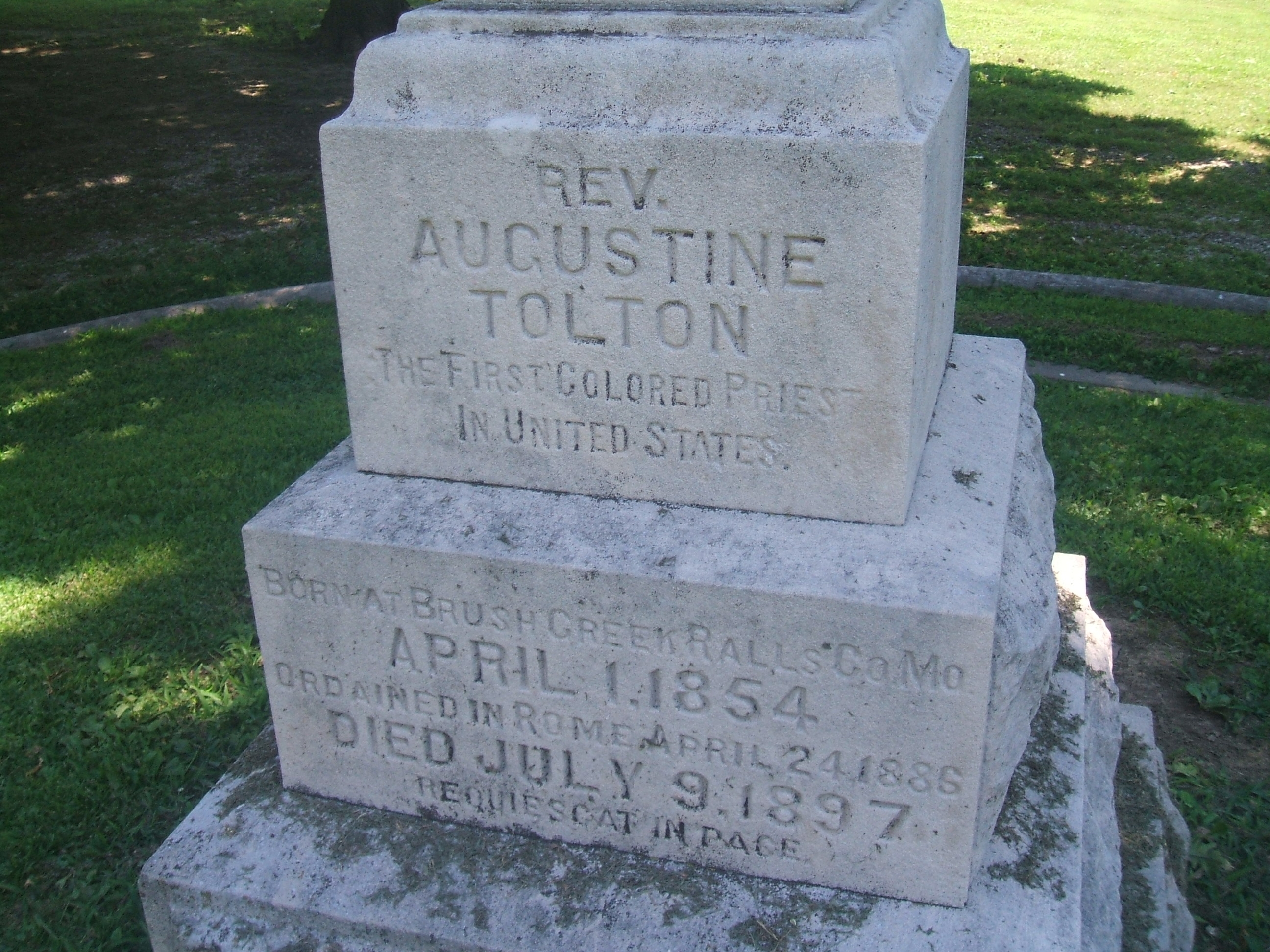 Fr. Augustine Tolton's grave marker in St. Peter's Cemetery (Quincy, Illinois, USA)